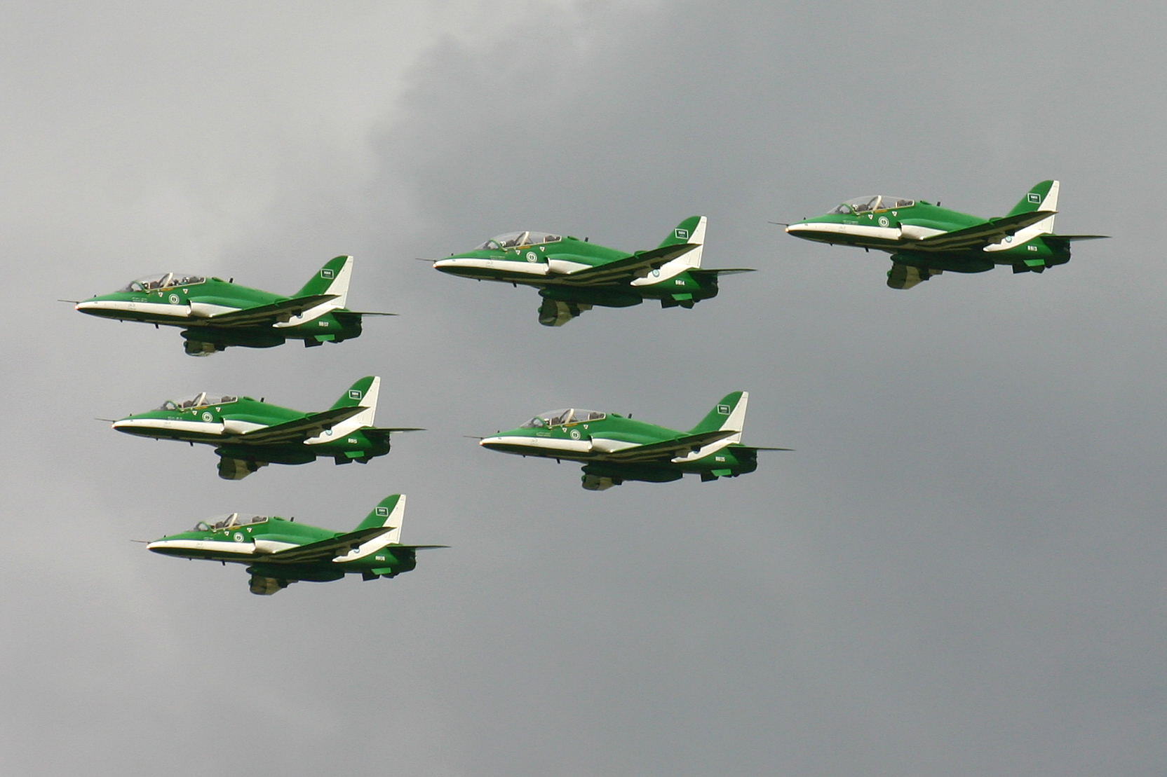 Running in to start their display. DO NOT ADJUST YOUR COLOUR BALANCE - They really are green, NOT red!! The Saudi Hawks team are operated by 88sqn RSAF. The aircraft in this display were:- T65A '8805' c/n 6Y-019 T65 '8807' c/n 330, l/n SA-026, T65 '8808' c/n 331, l/n SA-027, T65 '8810' c/n 326, l/n SA-022, T65 '8813' c/n 327, l/n SA-023, and T65 '8814' c/n 328, l/n SA-024. 2011 Koksijde Airshow, Belgium. 07-07-2011 2011 Koksijde Airshow, Belgium. 07-07-2011